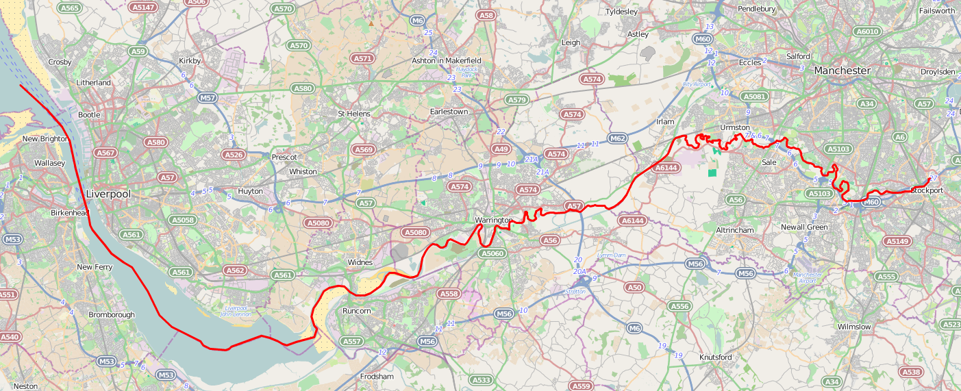 The River Mersey, in Merseyside, Cheshire and Greater Manchester This map may be incomplete, and may contain errors. Don't rely solely on it for navigation.